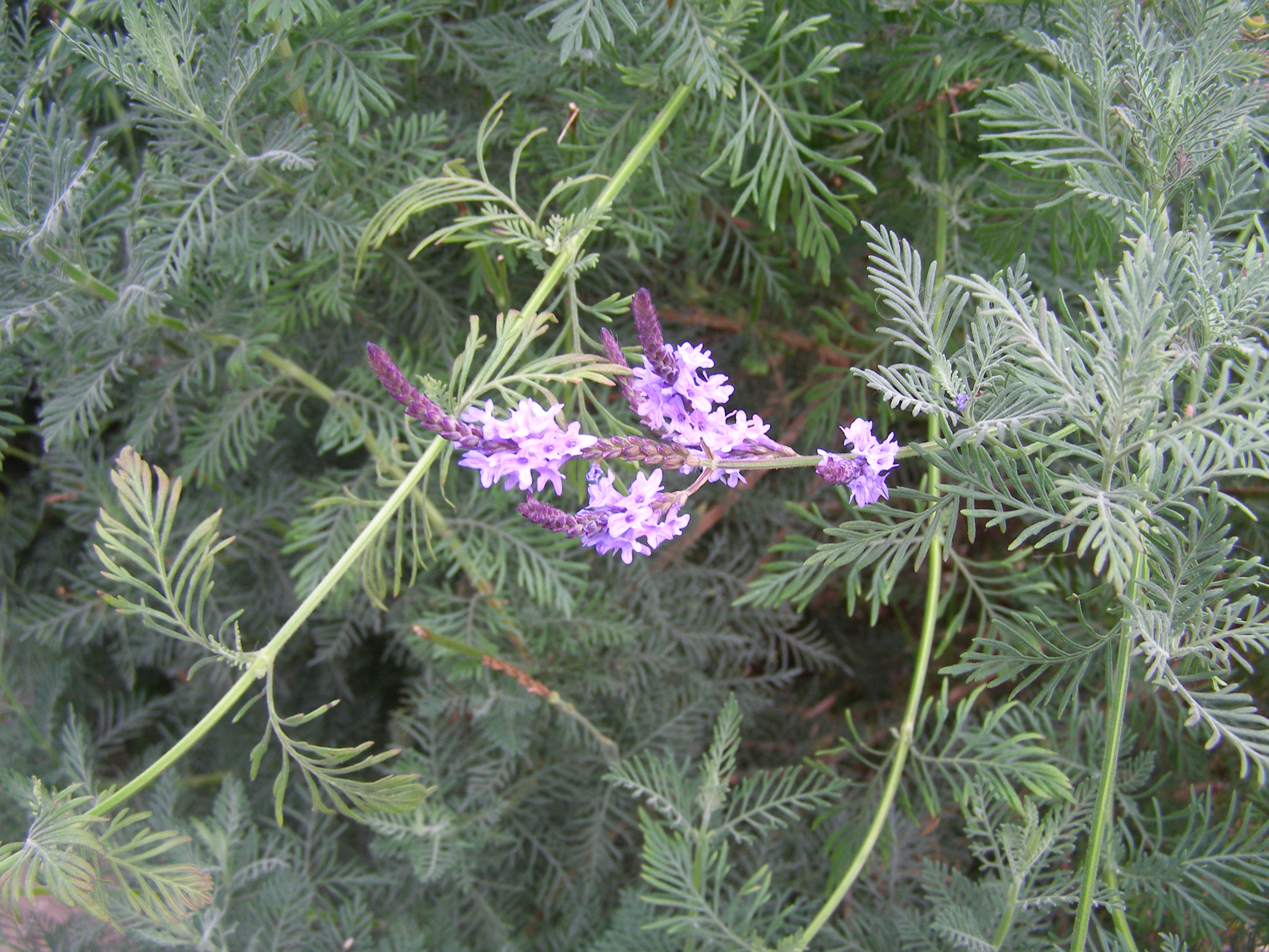 Taken by user IMC at RBG Kew (Conservatory). Could be Lavandula buchii